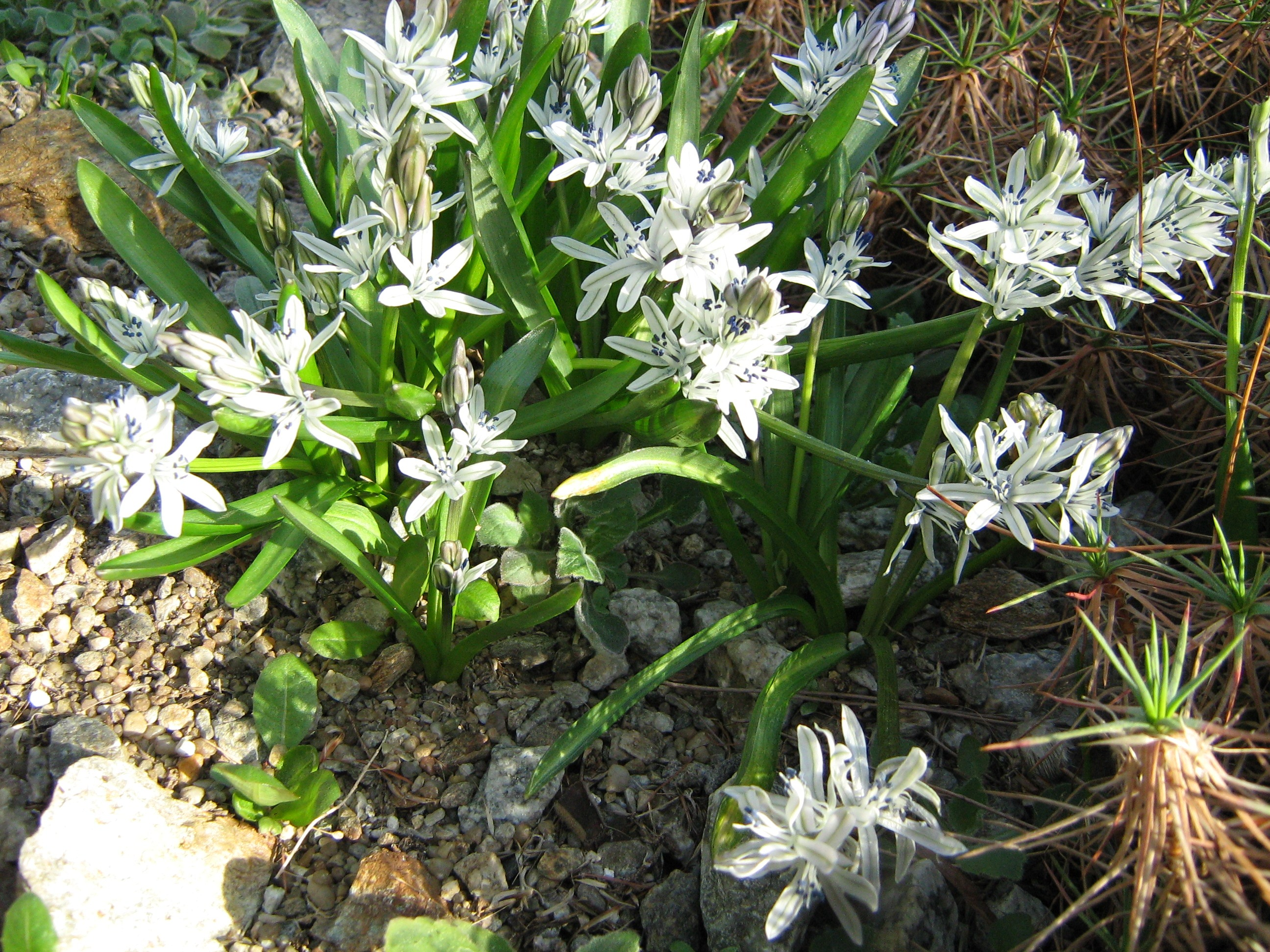 Fessia puschkinioides (Scilla puschkinoides) in the botanic garden of Berne